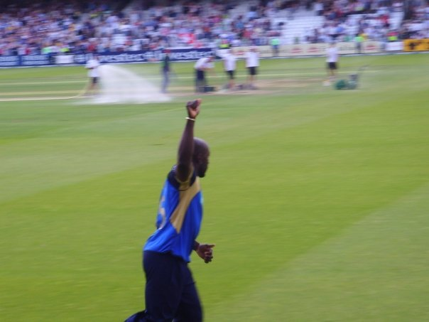 Michael Carberry, celebrating Hampshire's victory over Sussex in the 2009 Friends Provident Trophy final at Lord's.